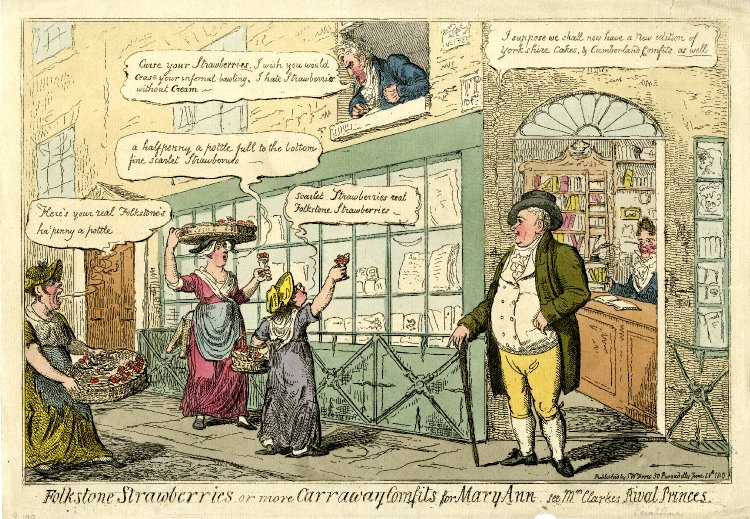 Illustration Folkstone Strawberries or more carraway comfits for Mary Ann depicting the shop of Samuel William Fores at the corner of Sackville Street and Picadilly, London.